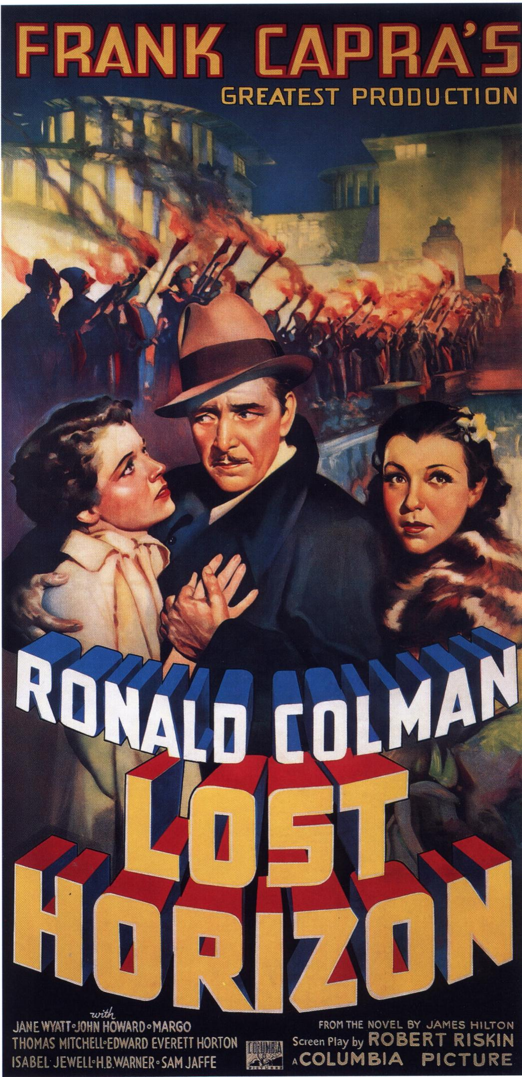 Three-sheet theatrical release poster for the 1937 film Lost Horizon.